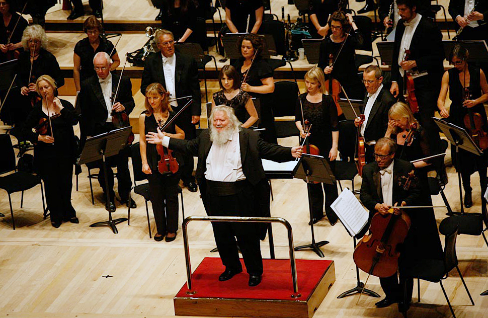 2012 London Olympic Games 'All Eyes on Korea' by KCCUK Photo by KCCUK 2012 런던 올림픽 주영한국문화원 '오색찬란' 페스티발 K-클래식 공연 사진제공 주영한국문화원 문화체육관광부 해외문화홍보원 Chief Conductor Segerstam holds titled positions with the Helsinki Philharmonic, Austrian Radio Symphony, Finnish Radio Symphony, Royal Swedish Opera, and the Danish National Radio Symphony Orchestra